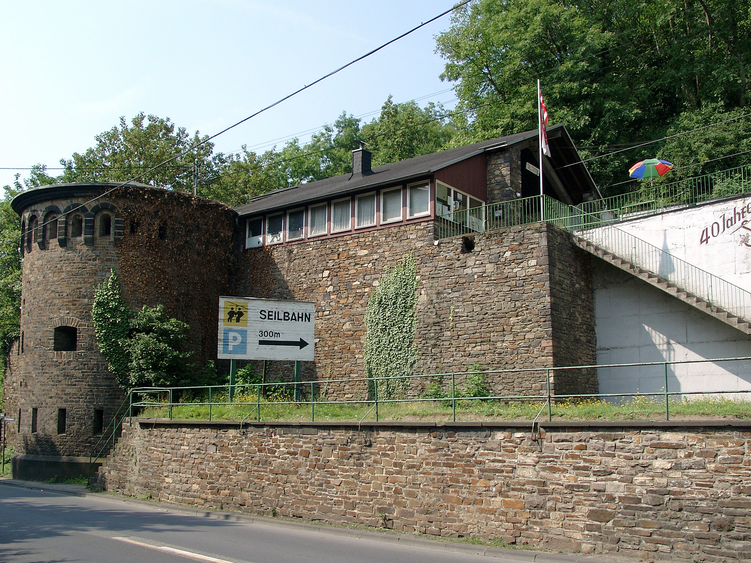 Sesselbahn Ehrenbreitstein in Koblenz